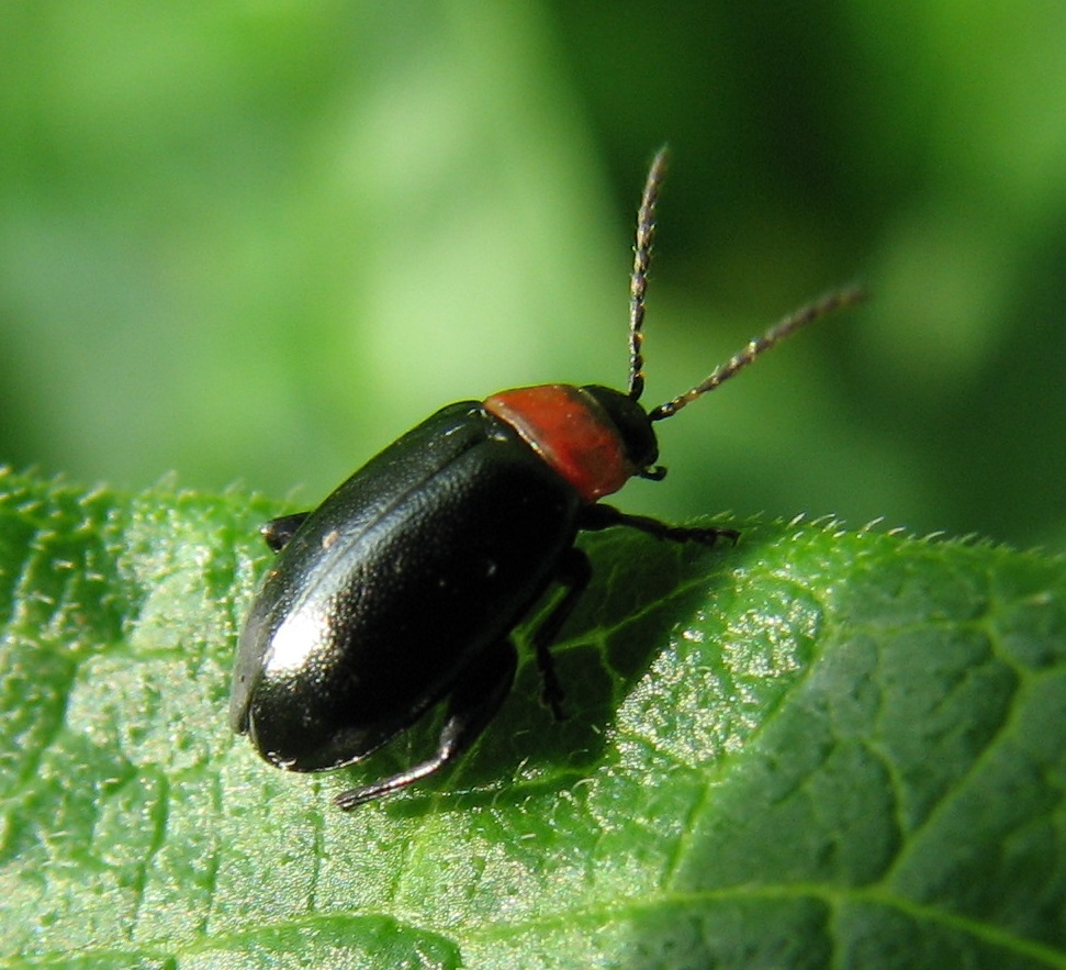 Spinach flea beetle, Disonycha xanthomelas. Peace Valley Nature Center, Bucks County, Pennsylvania, USA.